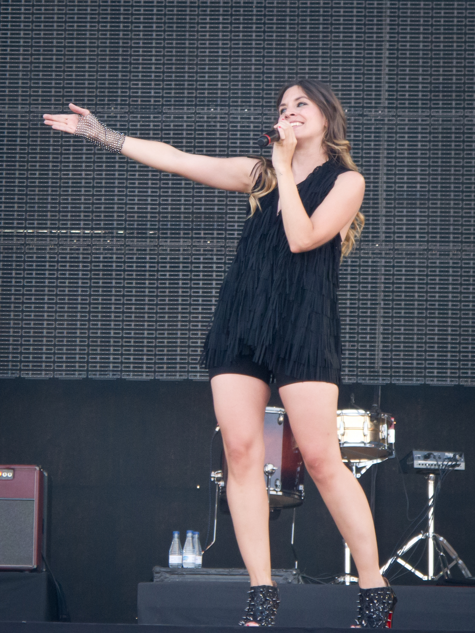 La oreja de Van Gogh in Rock in Rio Madrid 2012.